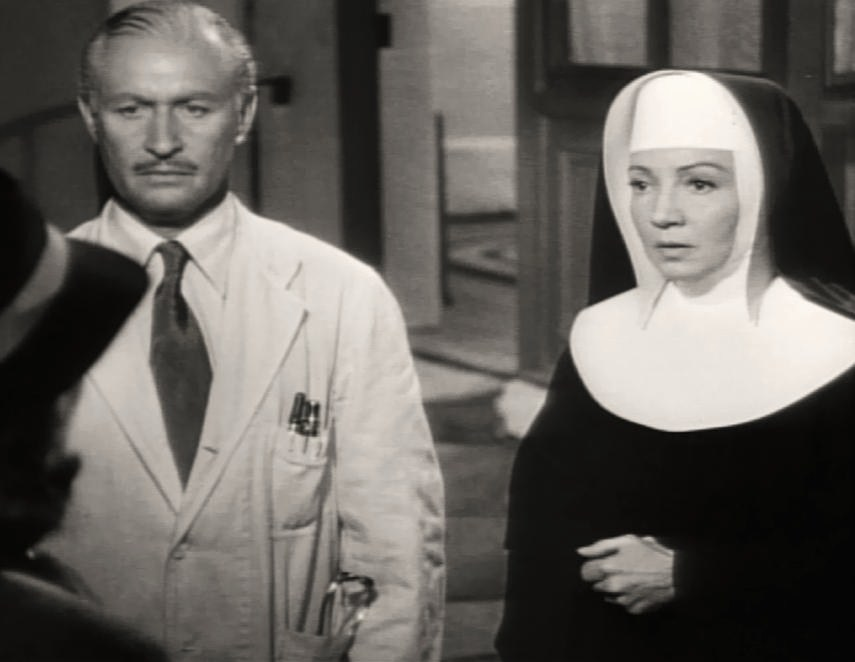 Robert Douglas & Claudette Colbert in Thunder on the Hill - trailer (cropped screenshot)